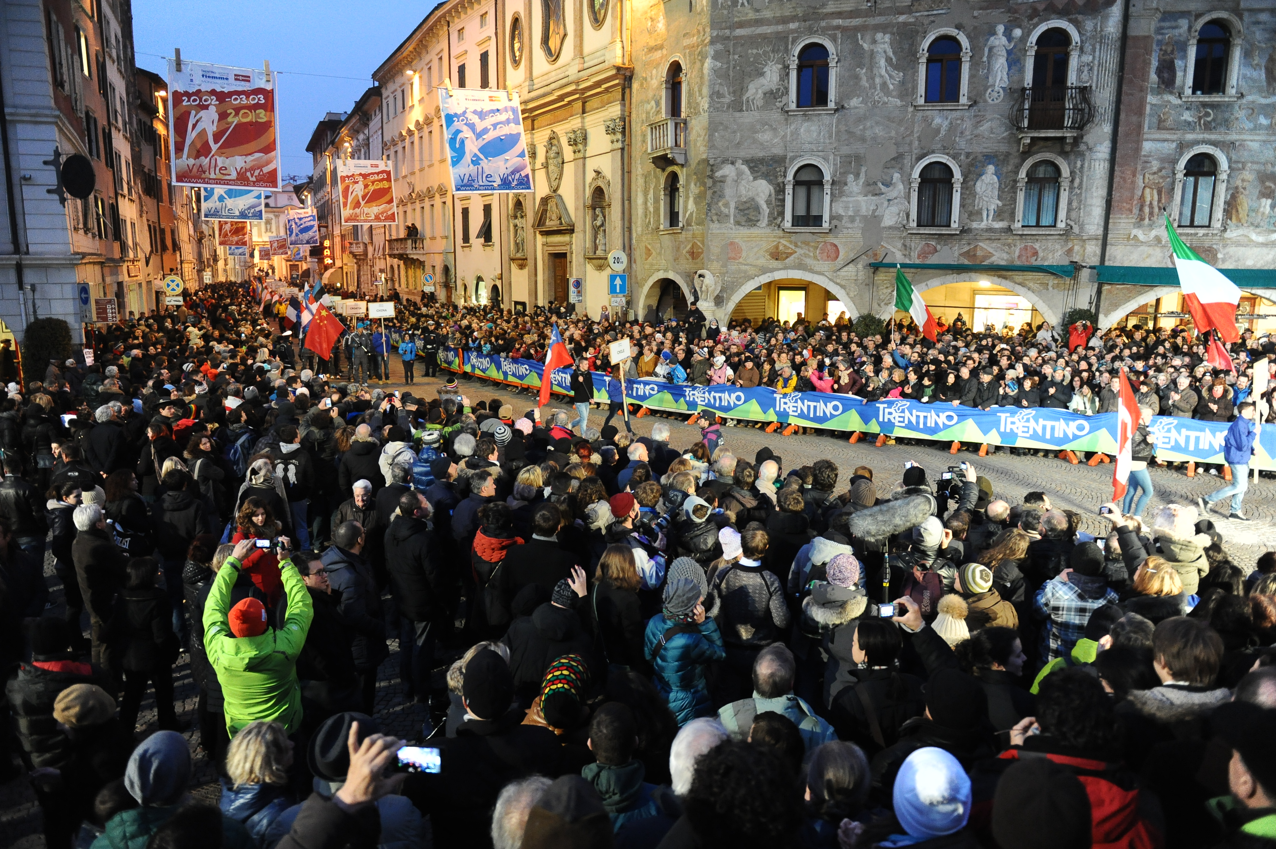 FIS Nordic World Ski Championships 2013 - opening ceremony in Piazza Duomo, Trento